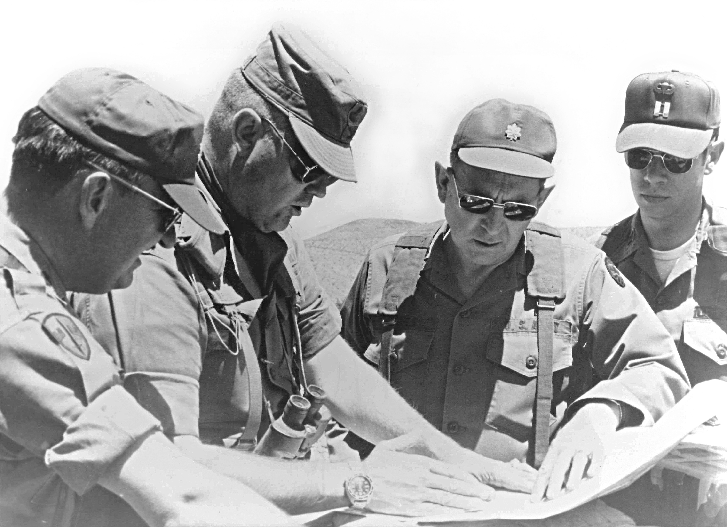 A then-Col. Norman Schwarzkopf (second from left) consults with officers, including Lt. Col. Don Parman (far left), Lt. Col. Bill Wells (next to Schwarzkopt, and then-Capt. Raymond F. Rees (far right), during a training exercise known as "Brave Shield", in 1977, at the Marine Corps base in Twentynine Palms, Calif. At the time, Rees was the operations officer for the exercise, and captain of the Oregon National Guard’s 3rd Squadron, 116th Armored Cavalry Regiment. Schwarzkopf was a colonel, and the brigade commander at Fort Lewis, Wash. Photo courtesy of Oregon Military Department.